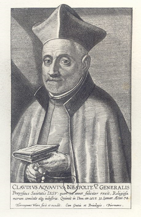 Engraving of Claudio Acquaviva (1543-1615), 5th General Superior of the Society of Jesus